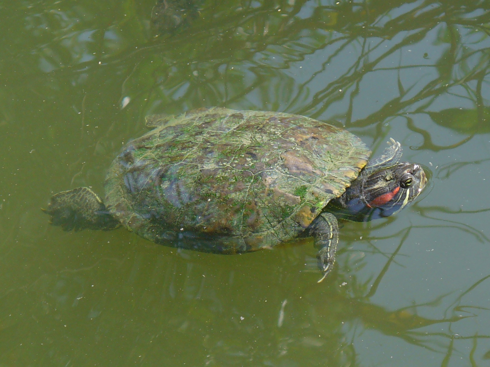 Trachemys scripta elegans, Emydidae, Red-Eared Slider; Réserve africaine de Sigean, Sigean, France